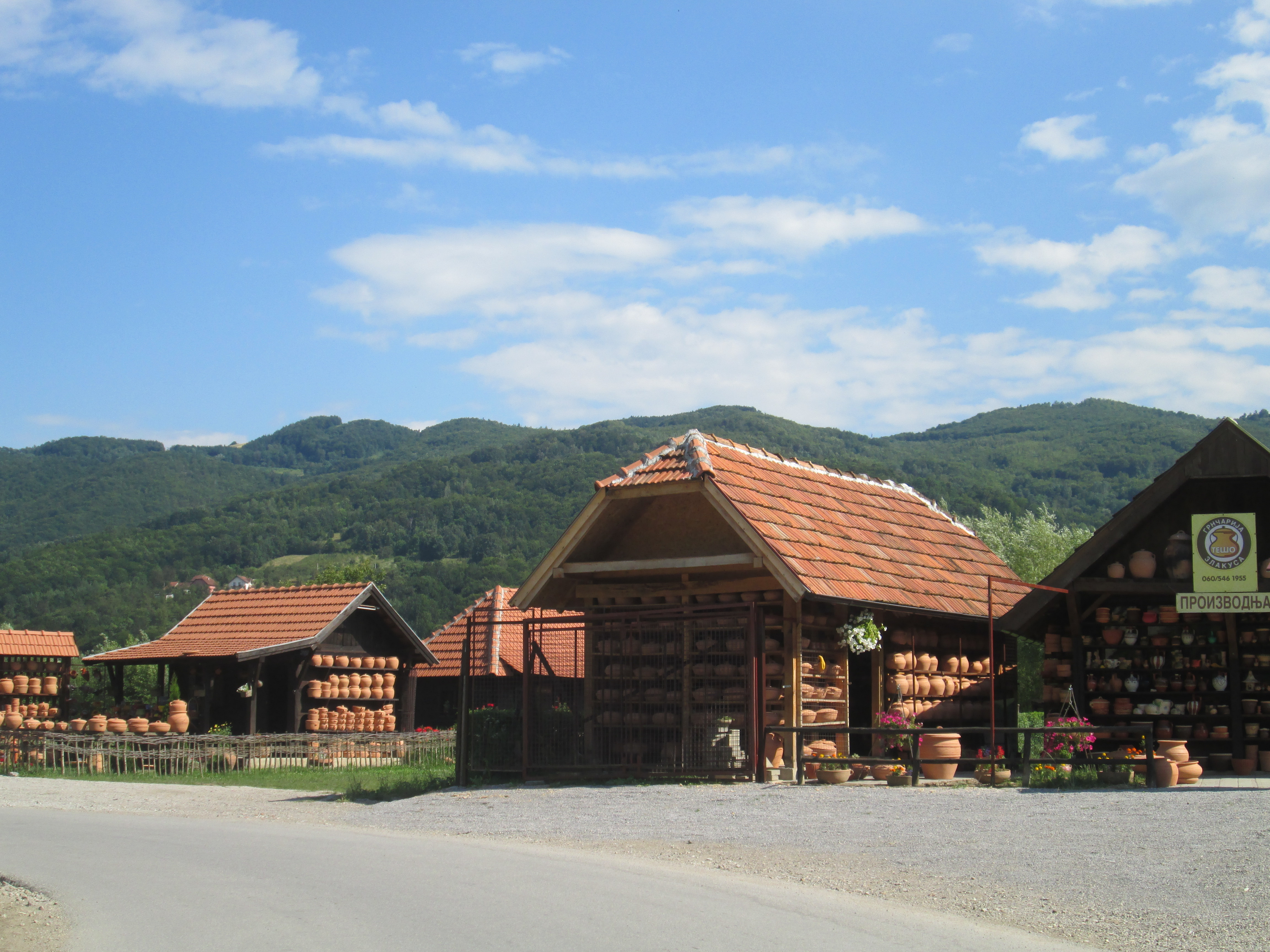 Pottery, ZlakusaСрпски (ћирилица): Грнчарија, Злакуса